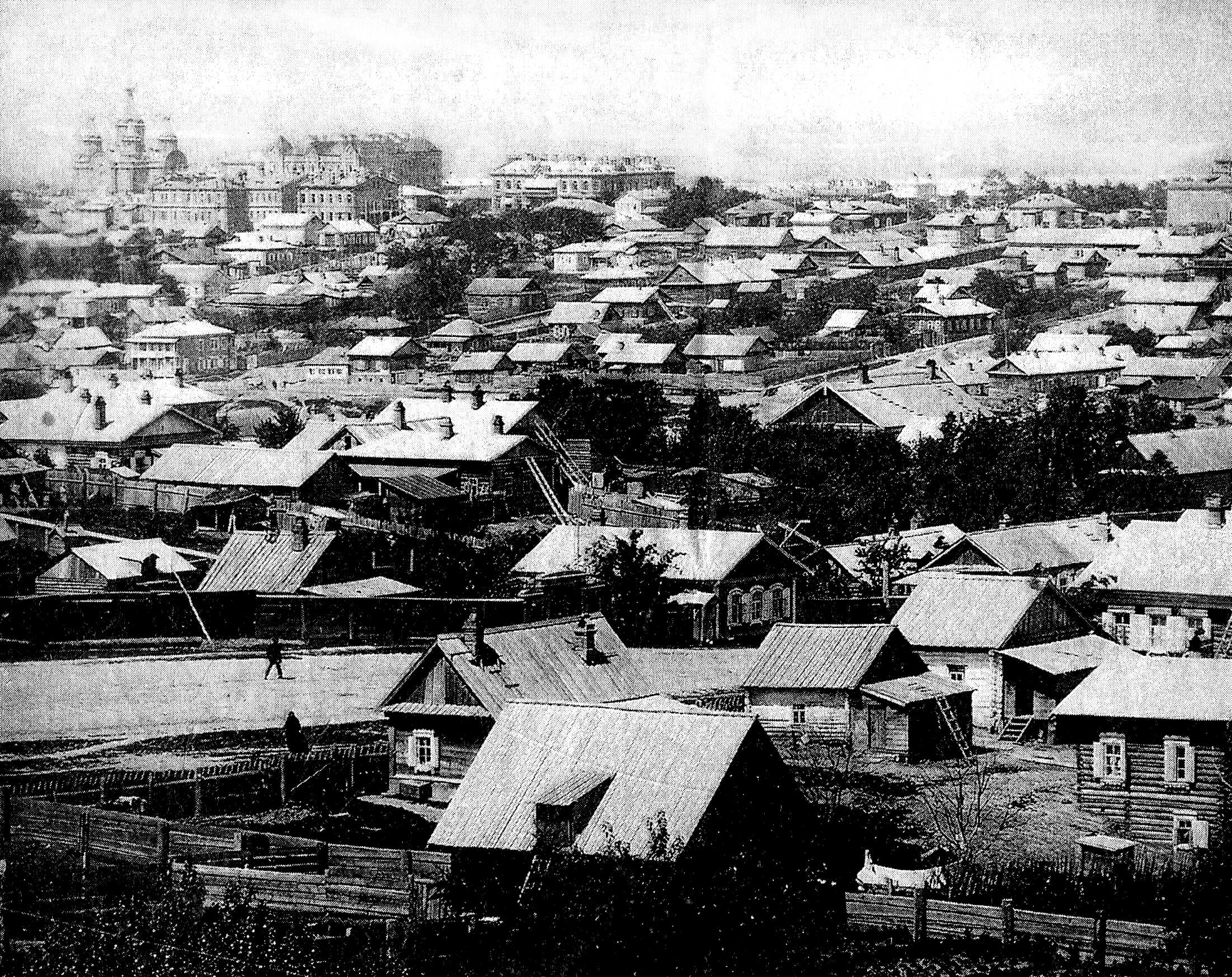 Khabarovsk in 1900s (See orig. feedback message in Russian wikipedia.)